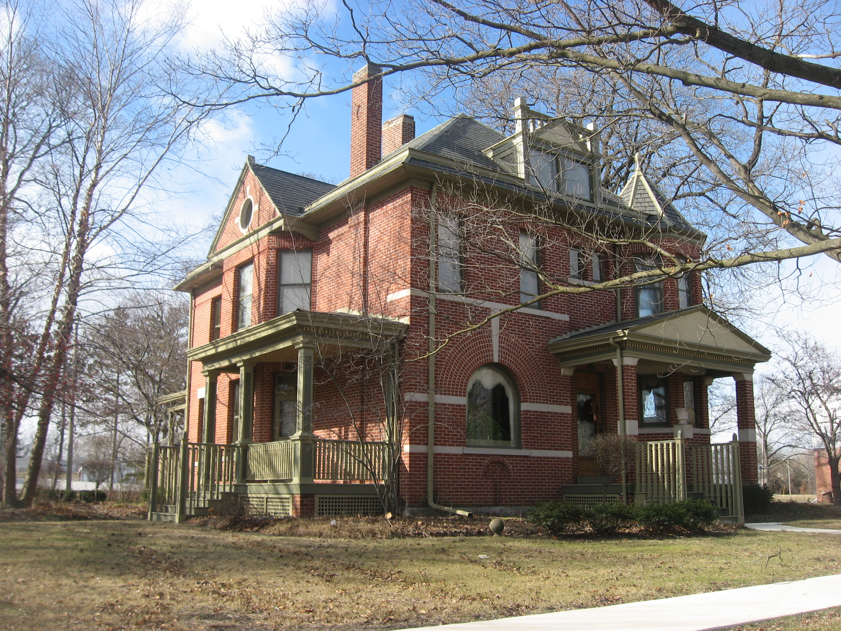 Front and southern side of the Dr. George W. Thompson House, located at 407 N. Market Street in Winamac, Indiana, United States. Built in 1897, it is listed on the National Register of Historic Places.